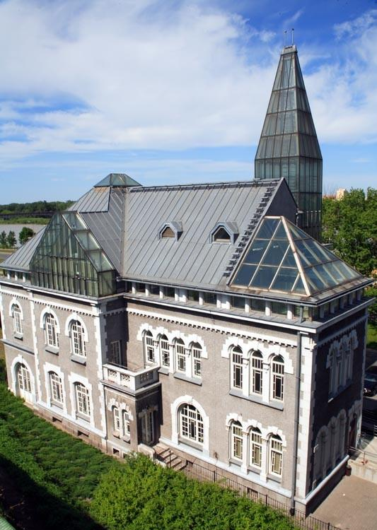 University Library in Warsaw